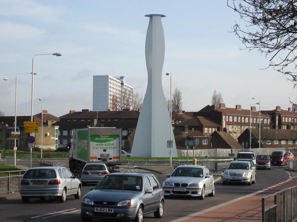 Public art on the A124 between the town centre and the A406: "The Lighted Lady of Barking" by Joost van Santen.